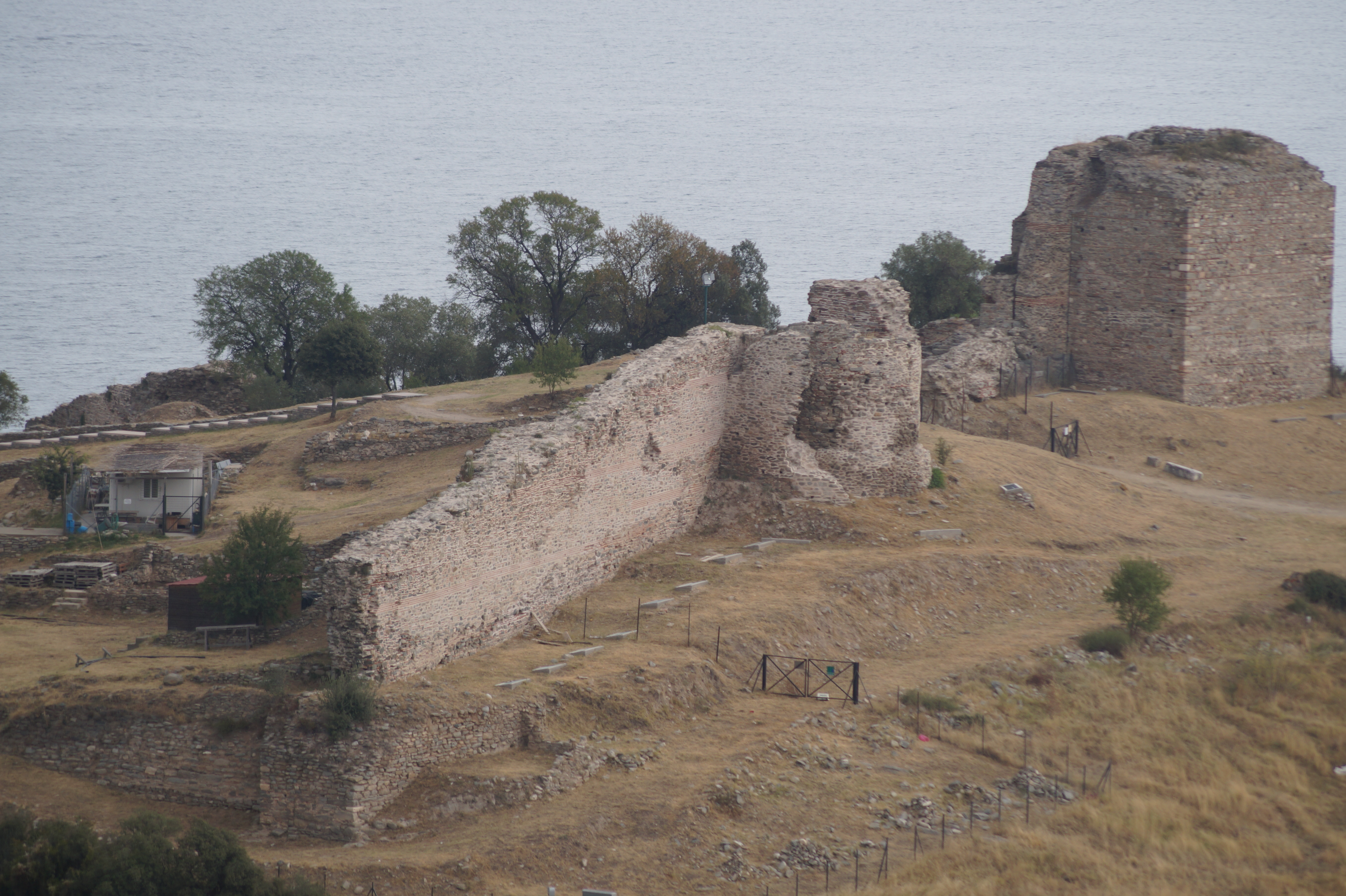 Nea Peramos, Makedonia, Greece: South wall of castle of Anaktoropolis. On the western end of the wall there is the ceramicoplastic inscription. View from Oesyme.